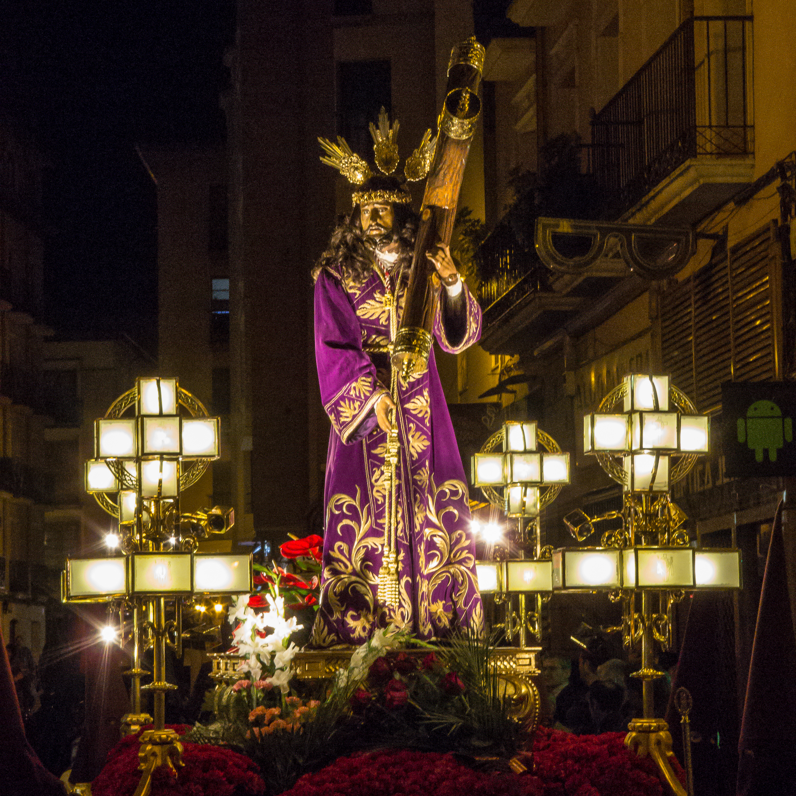 OLYMPUS DIGITAL CAMERA This is a photography of a Folklore festival in Spain (Wikidata id Q9075892).